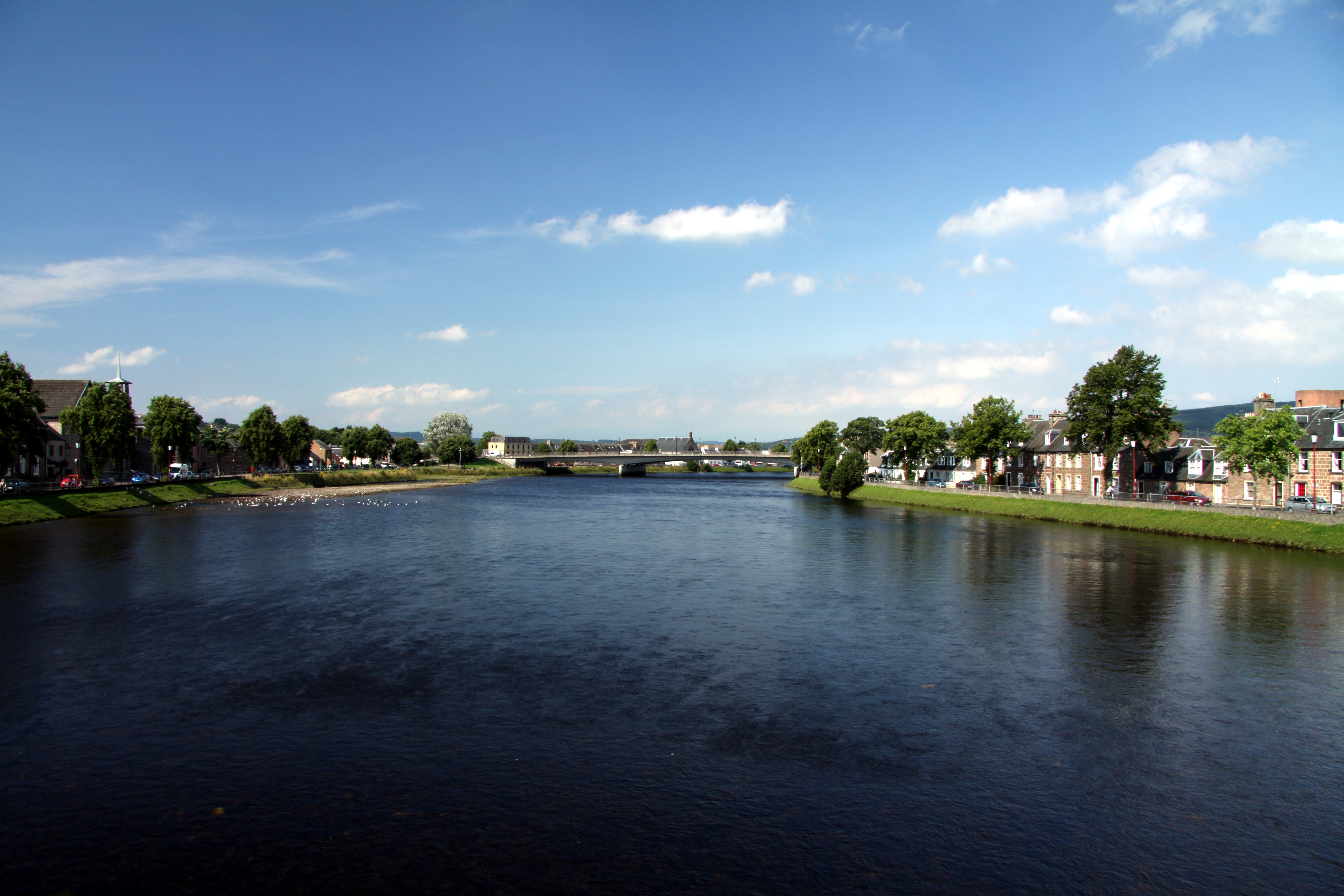 River Ness in Inverness, Scotland